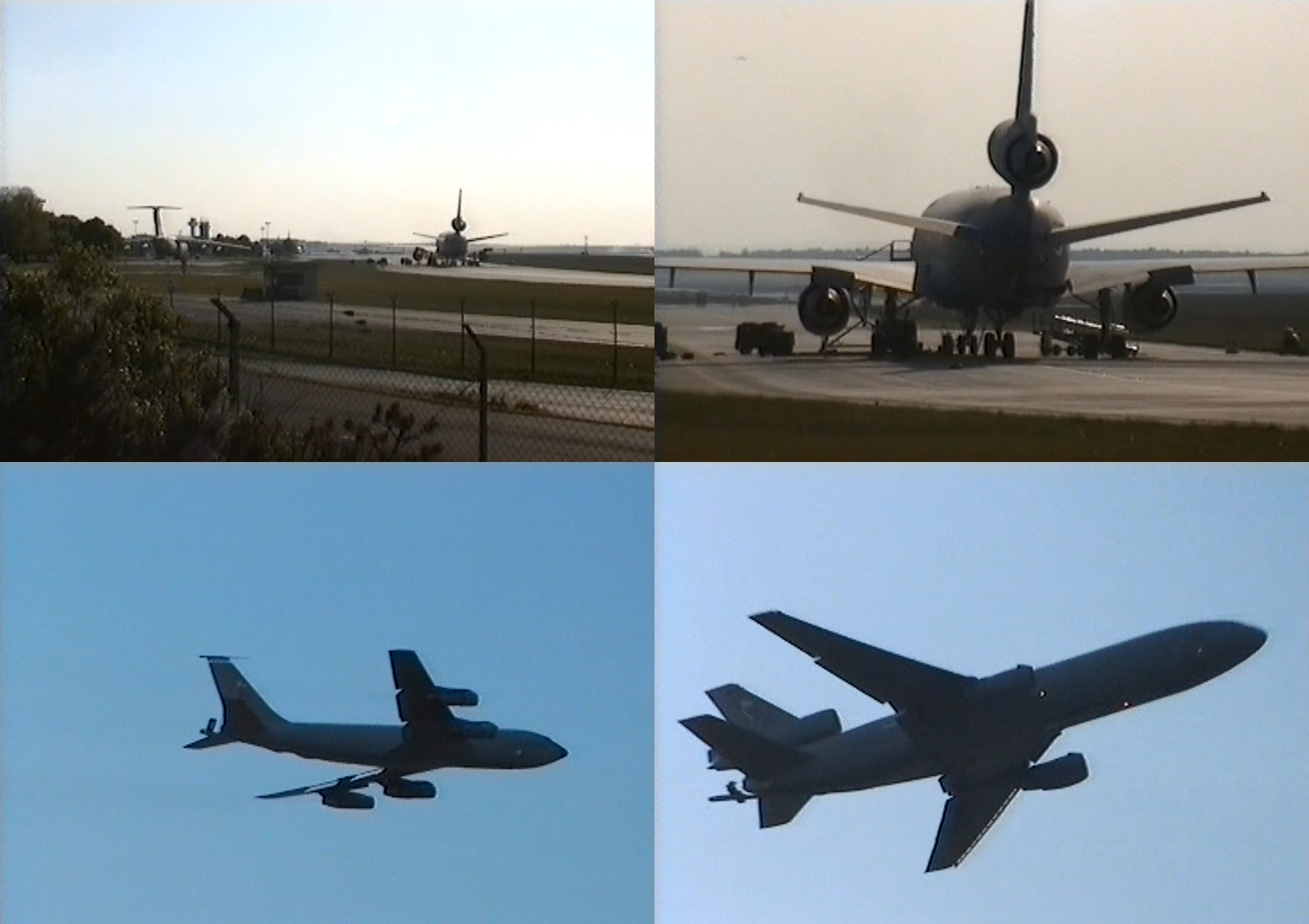 The Rhein-Main Air Base during the Kosovo War on 2 May 1999; late in the afternoon several tankers took of to refuel jets on the way to Kosovo/Serbia and back again